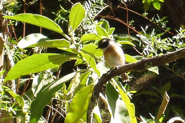 Tec-tec or Saxicola tectes in la Réunion island (France).